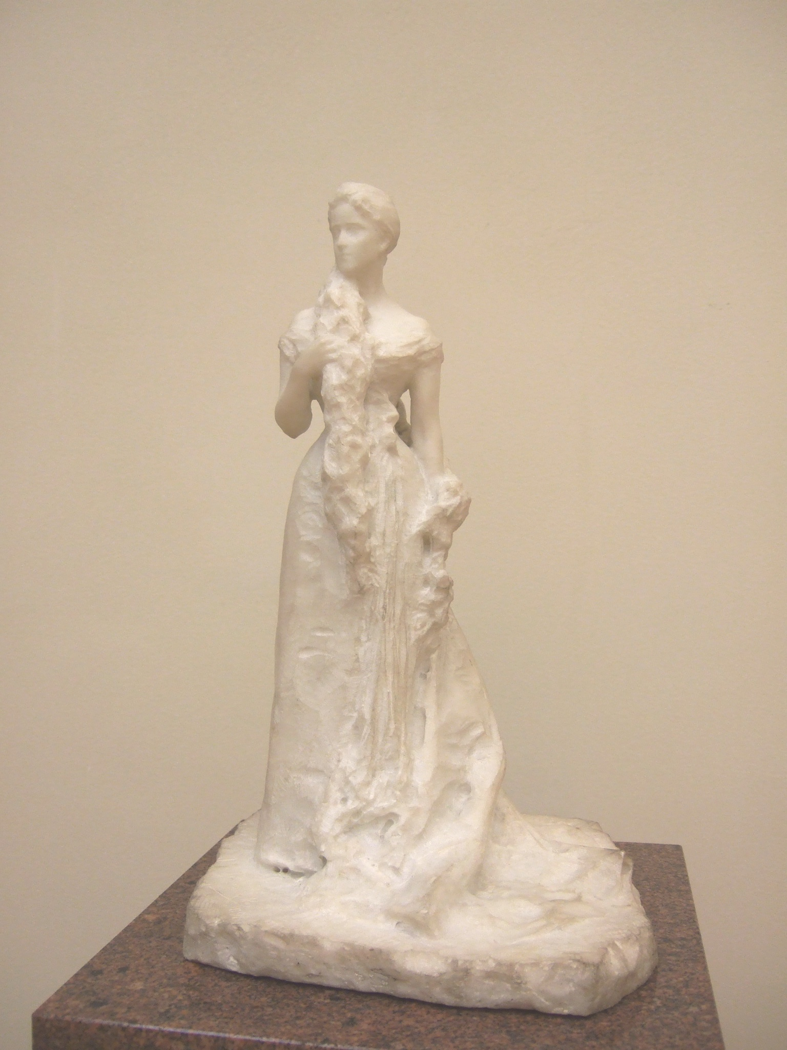 Portrait of Great Duchess Elizaveta Feodorovna